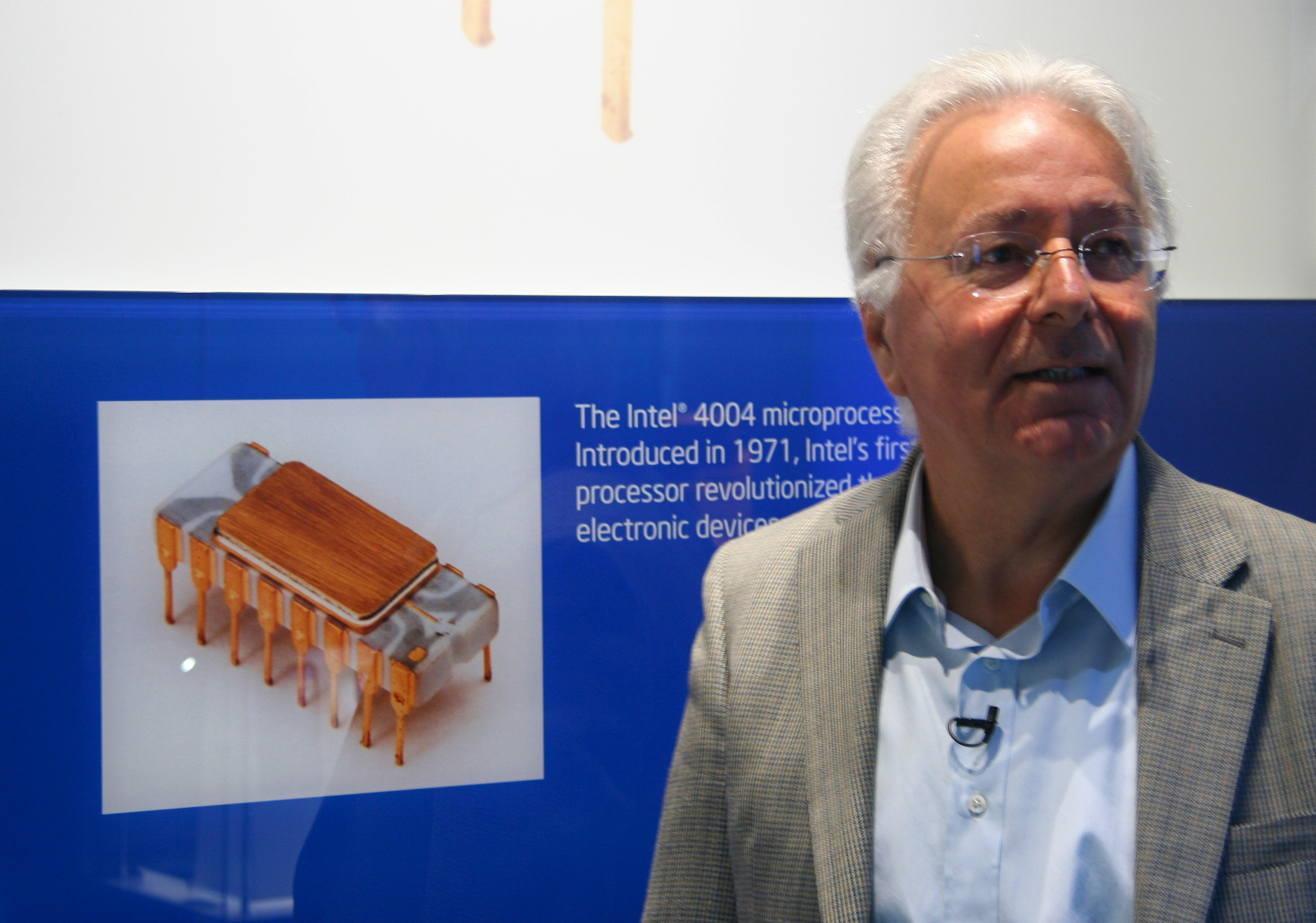 On a recent visit to Intel headquarters, Federico Faggin talked about his role designing the 4004 microcessor in 1971, which is considered the world’s first microprocessor, and he described its impact on society. Just as engines powered the industrial revolution, Faggin sees the microprocessor, the brain chip powering computers since 1971, as the core element driving the information age. “The engine extended the muscular power of human beings, thus enabling the industrial revolution,” said Faggin. “The microprocessor extends the intellectual capacities, the brain power of human beings, thus extending the human reach into areas that an engine cannot.”